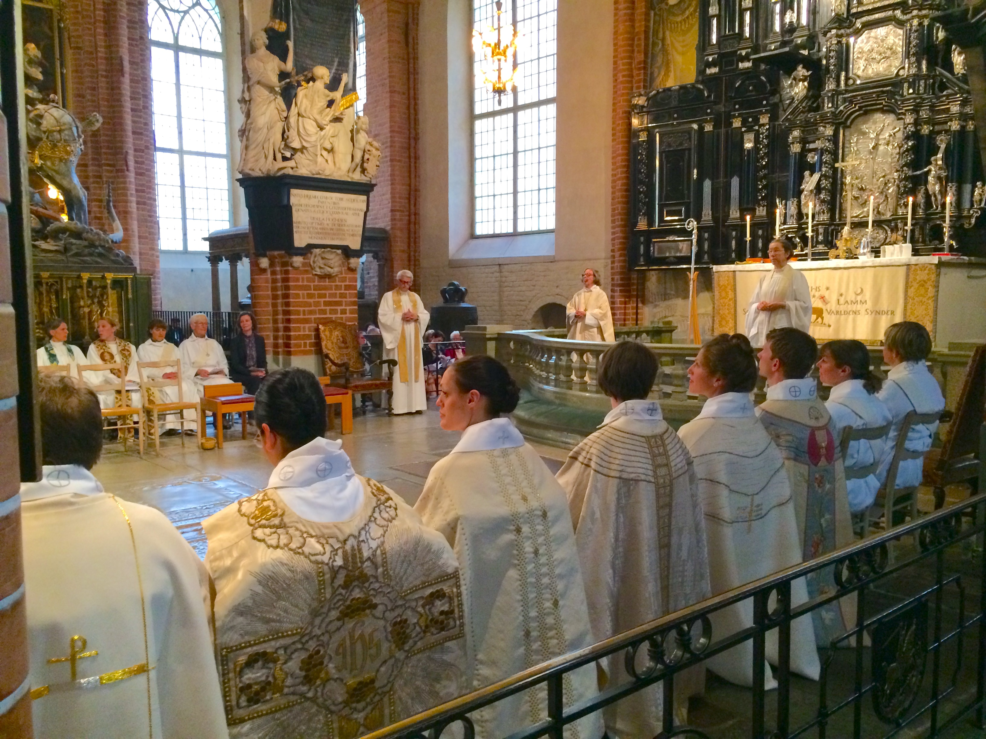 Sung Mass with the ordinations of 2 deacons and 7 priests by the Bishop of Stockholm, in St Nicholas's Cathedral (Storkyrkan), 14 June 2015.